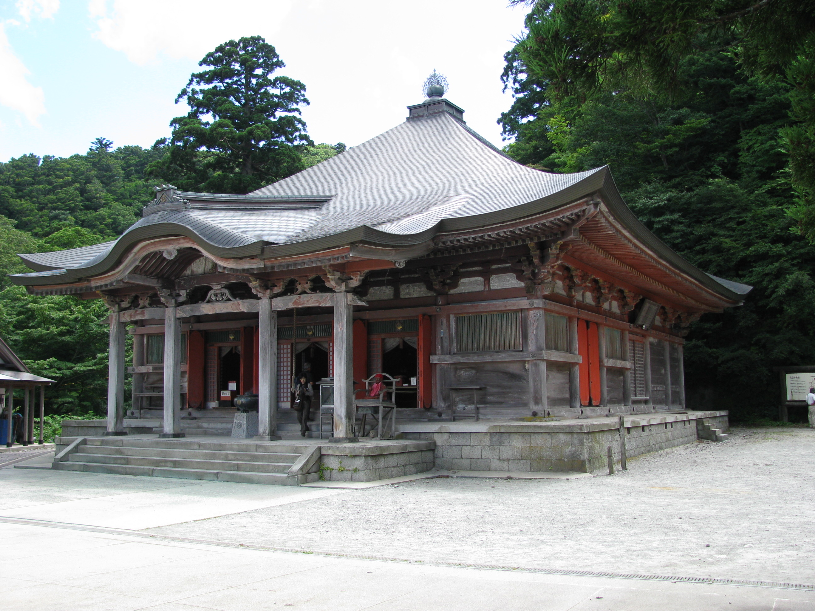 The Daisen-ji。This place is Daisen, Tottori Prefecture, Japan.